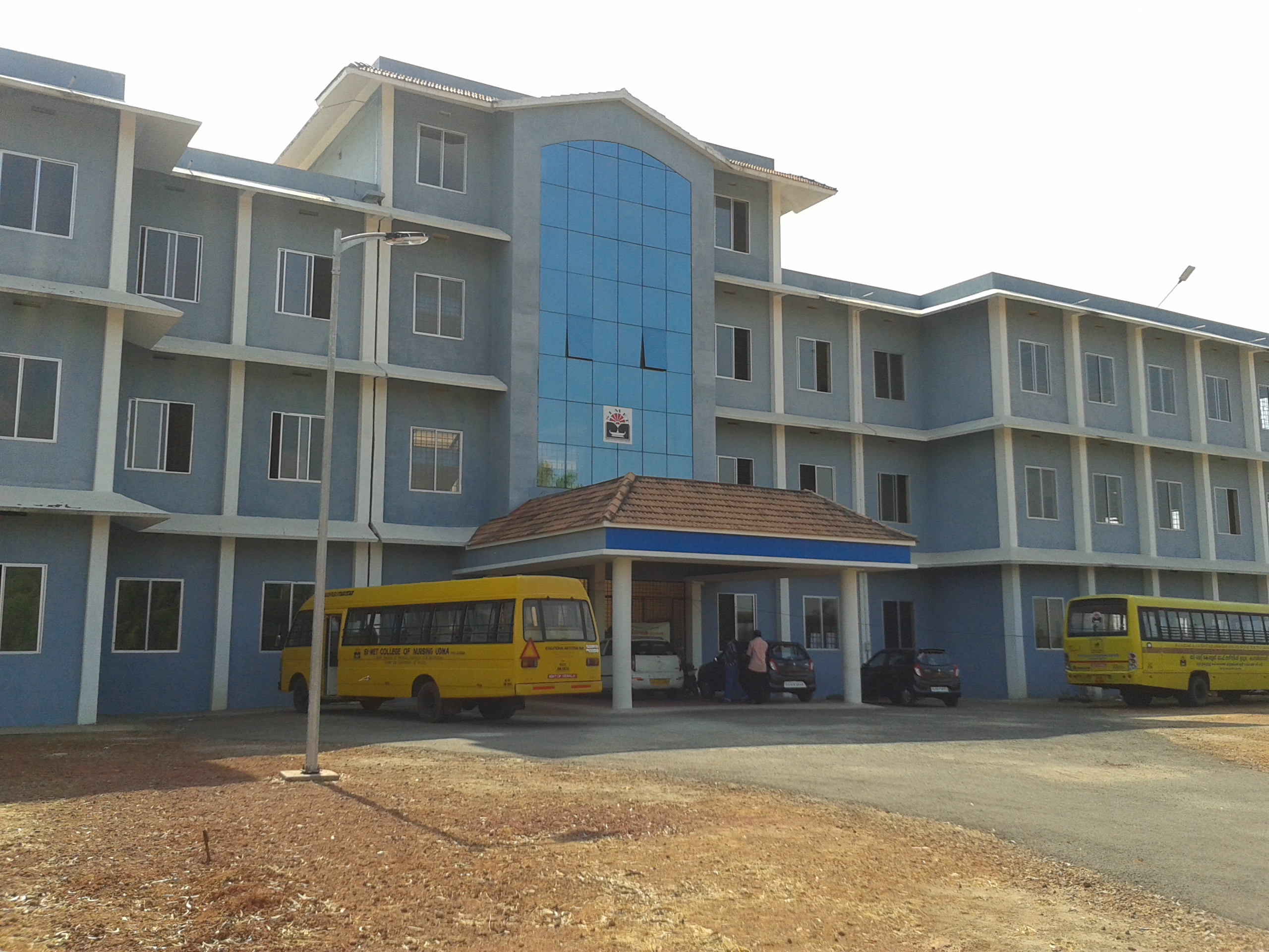 SI-MET College of Nursing is an autonomous institution under Health Department, Kerala Govt.It was located at Udma in Kasaragod district, The place is well known for its hospitality .The region is a fastest growing tourist destination for kerala and is near to Bekal fort. New College building is now functioning at Periya which is 17 km away from Kasargode, near to NH 66(17). The college is offering 4 year BSc Nursing degree programme. The College was inaugurated on 16 th November 2009 by Smt.P.K.Sreemathy Teacher, Hon. Minister for Health and Social Welfare department,Govt.of Kerala at Udma.The new college building was inaugurated on June 1st 2013 by Hon'ble Chief Minister of Kerala Shri Oommen Chandy at Ayampara, Periye.